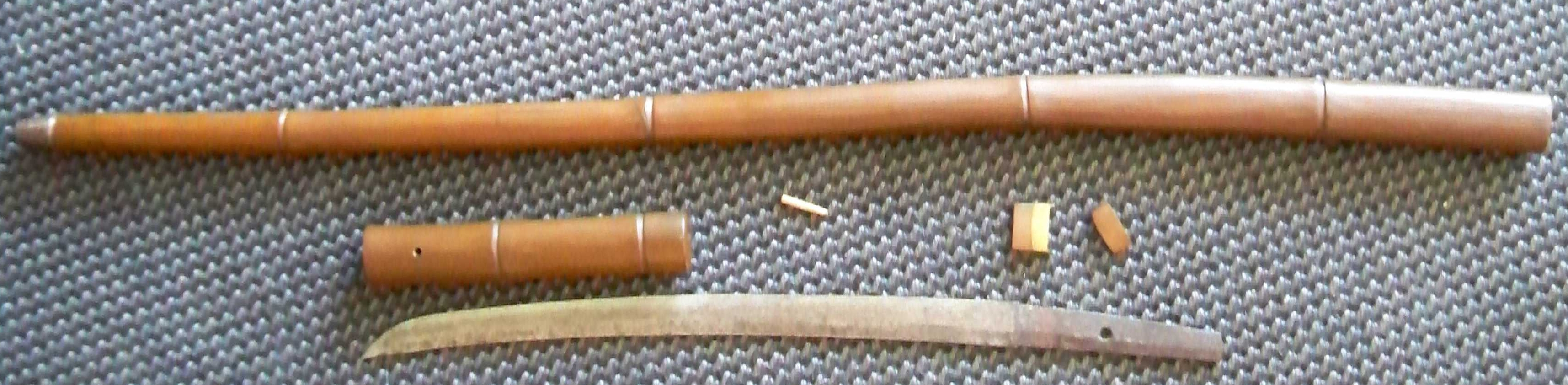 Shikomizue, antique Japanese sword cane.